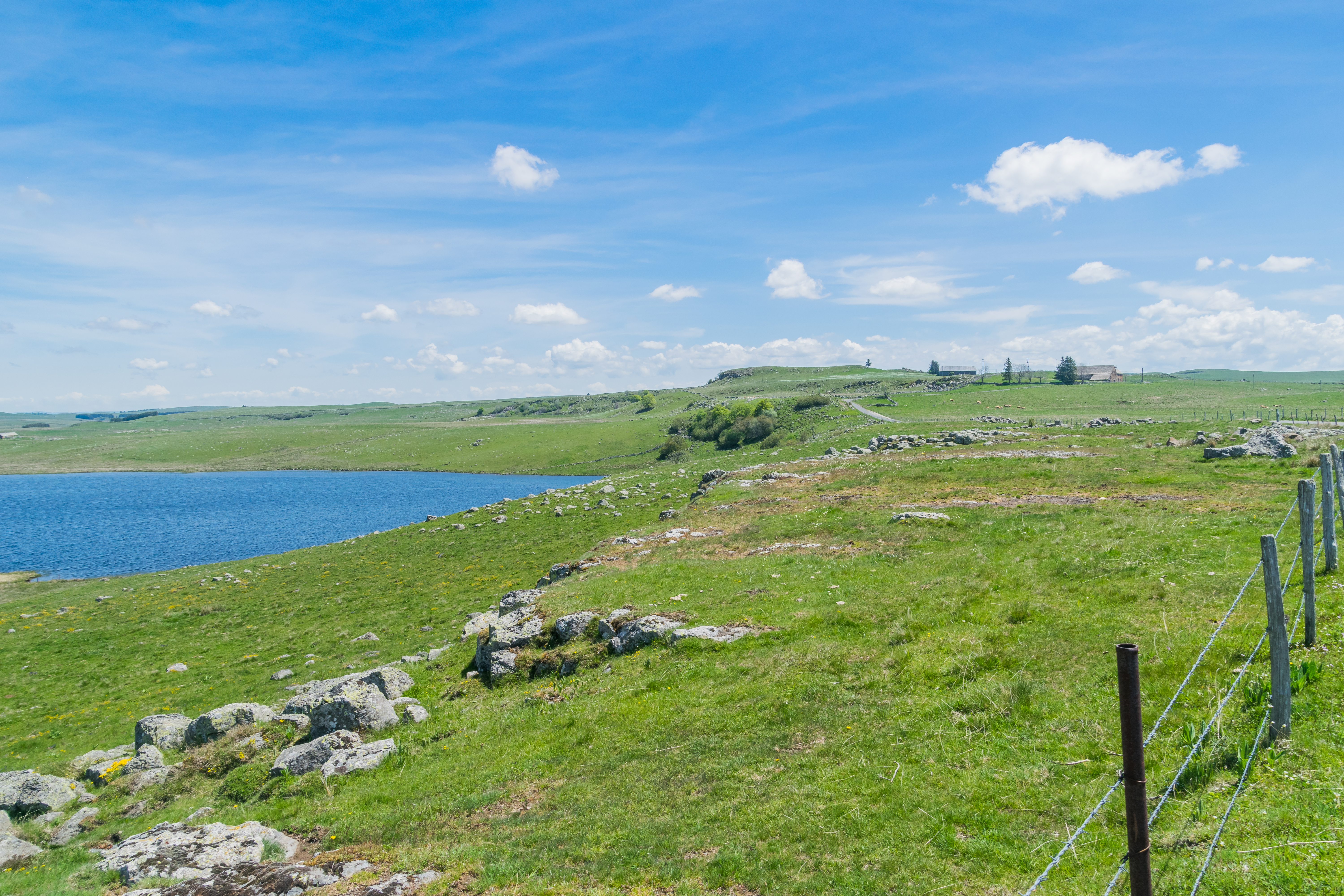 Lac de Saint-Andéol in Nasbinals, Lozere, France